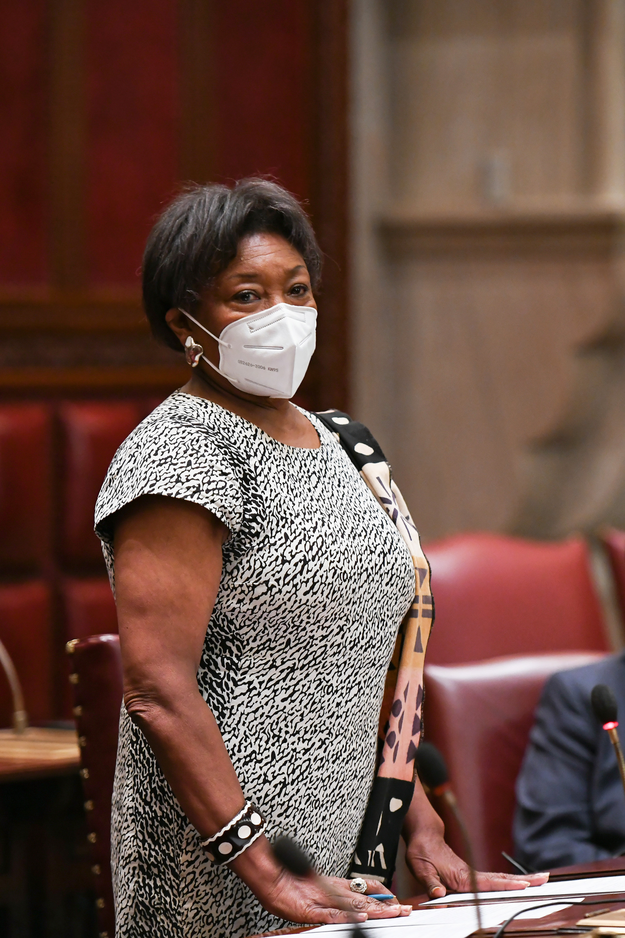 speaks during session. The NYS Senate passed a package of Police Reform bills this week in response to the killing of George Floyd and the Black Lives Matter movement. NYS Capitol, Albany NY Photo Courtesy of NY Senate Media Services